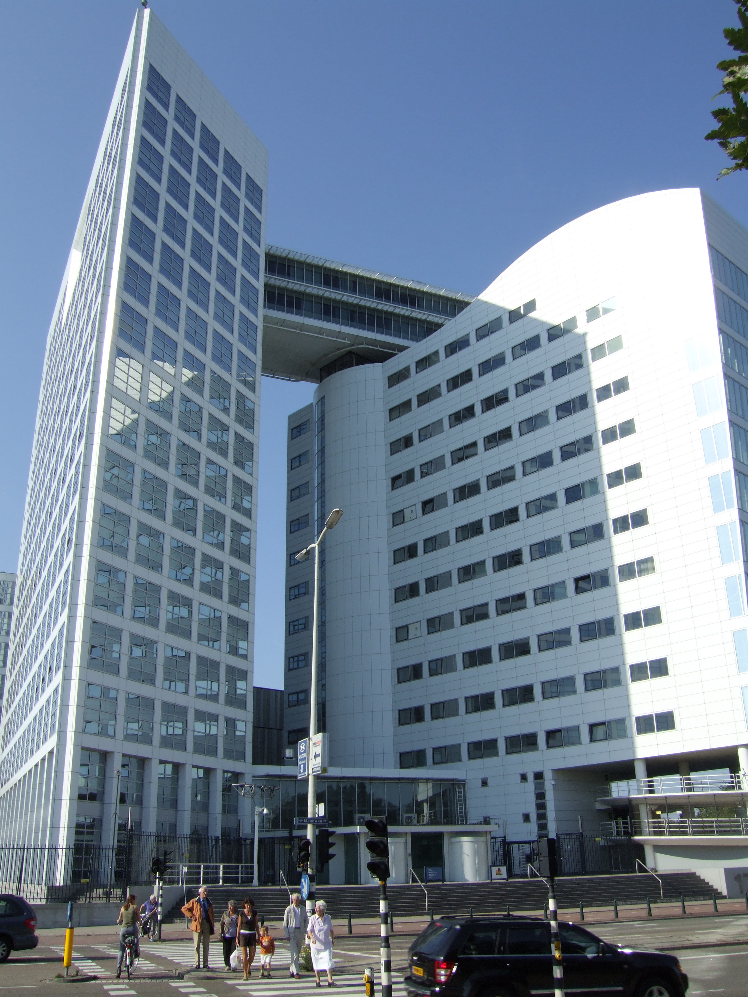 The building of the International Criminal Court in The Hague, Netherlands